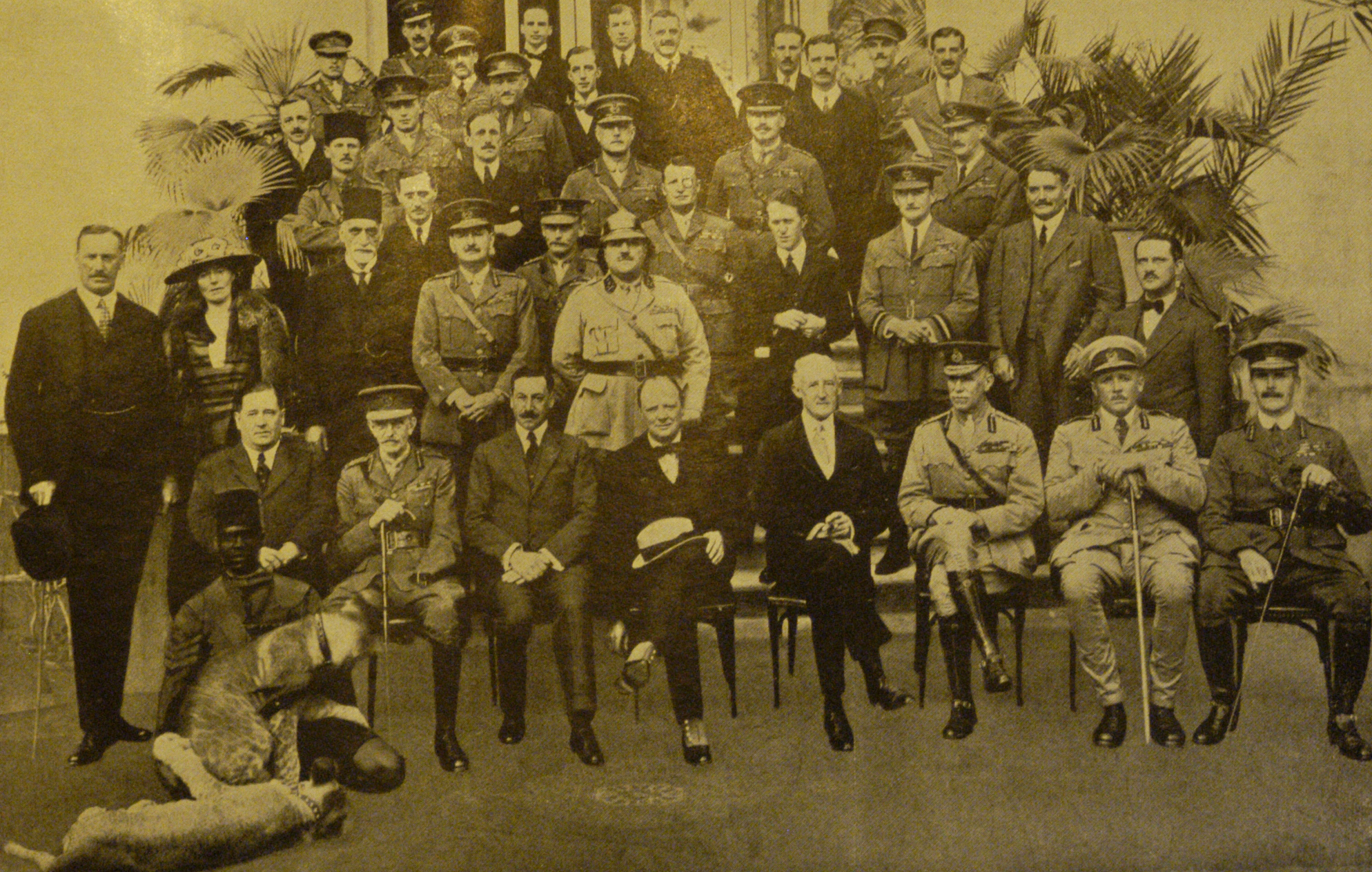 The "Forty Thieves" with lion cubs at the Cairo Conference March 1921. The cubs were being taken to London Zoo. Seated (front row): Field Marshal Lord Allenby, Winston Churchill and others. Standing: T. E. Lawrence, Major Hubert Young, Sir Herbert Samuel, Sir Percy Cox, Gertrude Bell, Ja'afar al'Askari, Air Vice-Marshal Sir Geoffrey Salmond, Sir Sassoon Eskell and others.